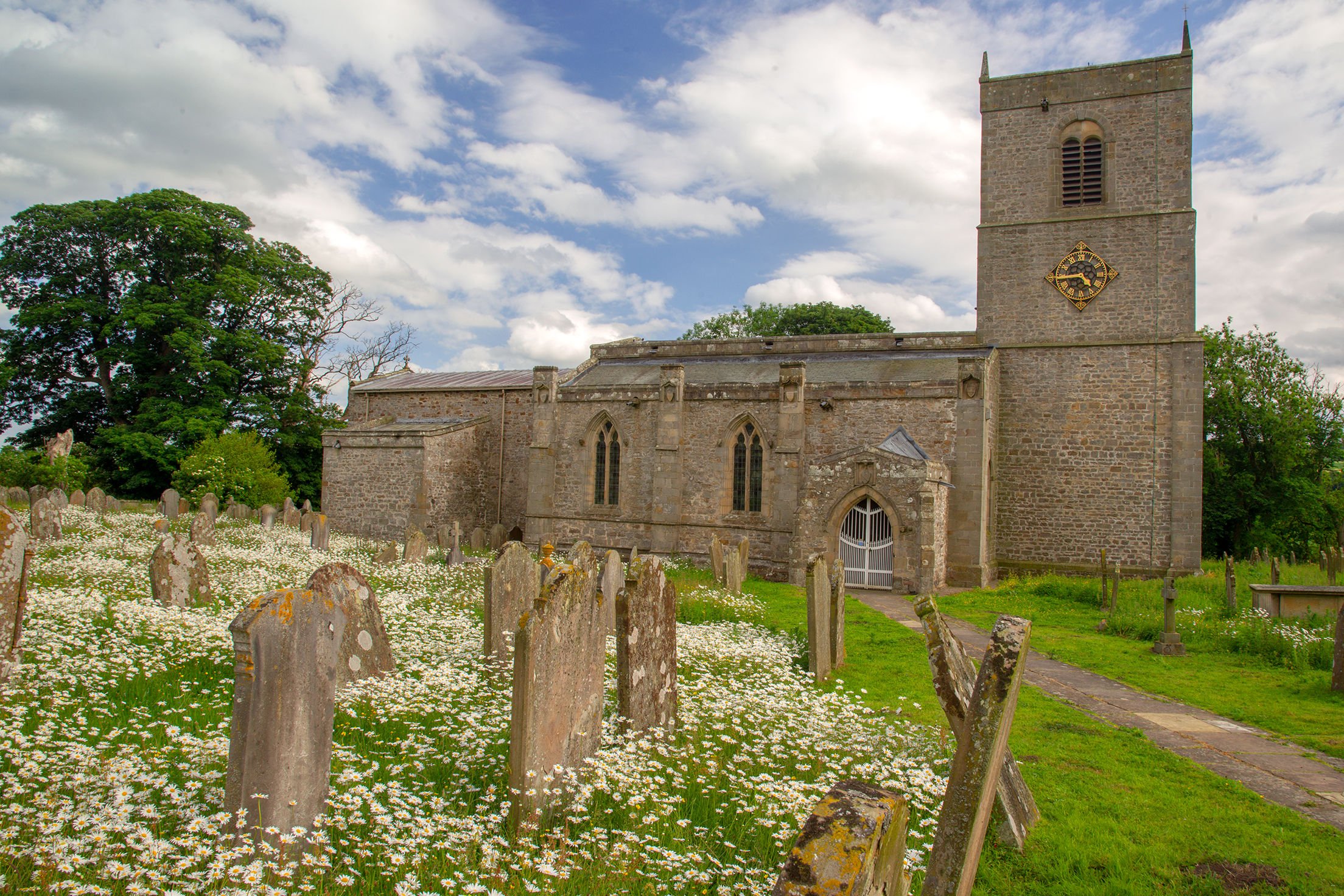 The back of the church with part of the cemetary.